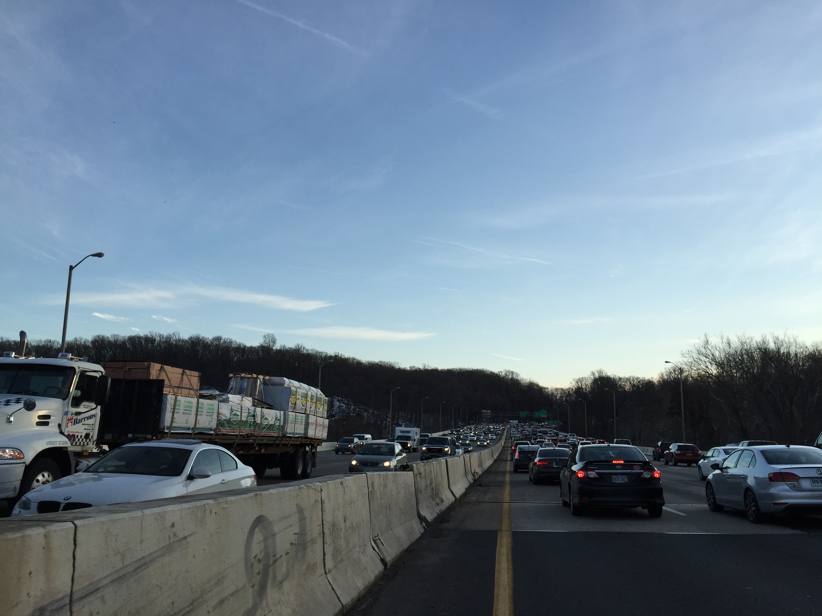 View south along the outer loop of the Capital Beltway (Interstate 495) just north of the American Legion Memorial Bridge in Potomac, Montgomery County, Maryland during evening rush hour